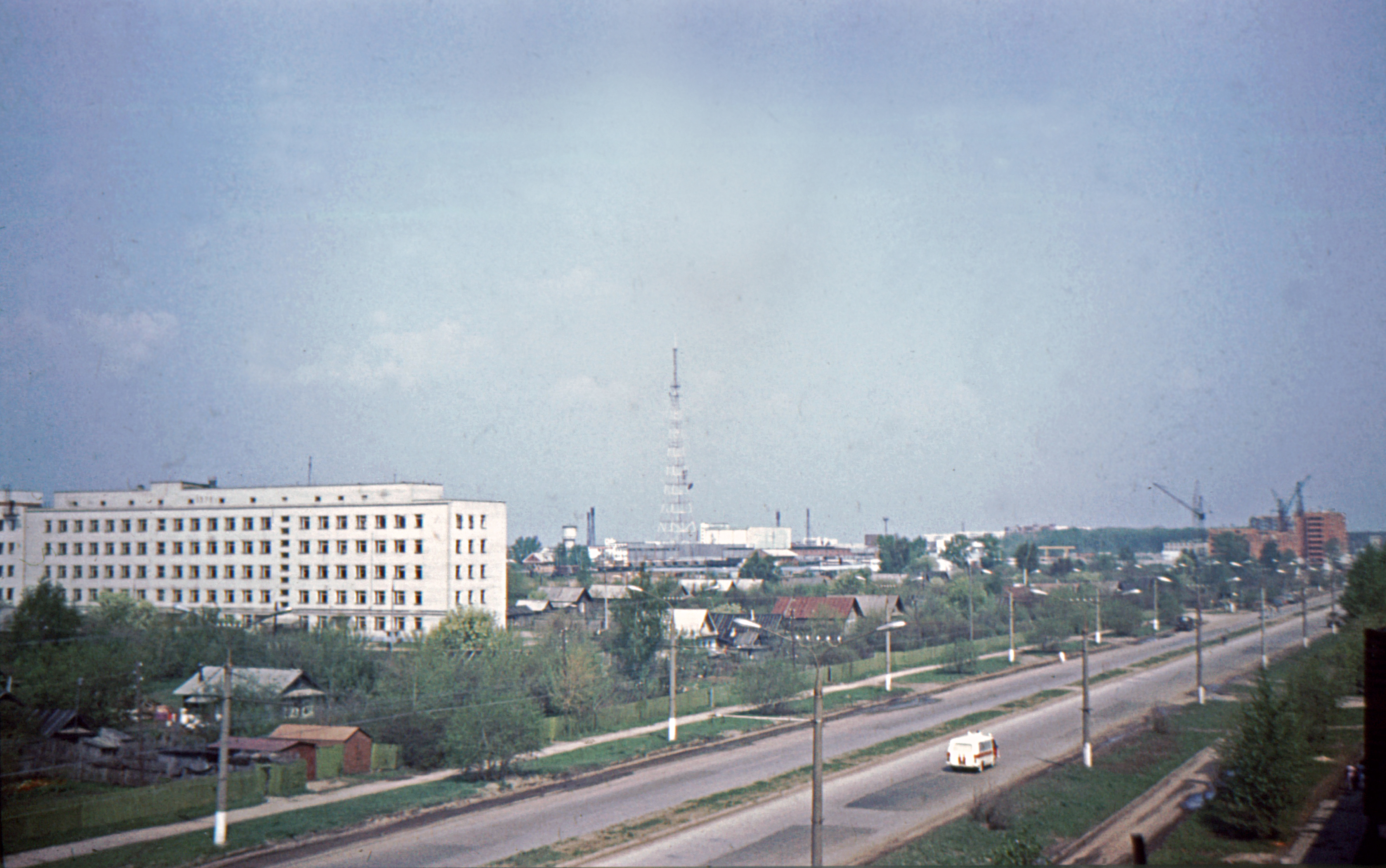 Cheboksary. Prospekt Mira in 1987